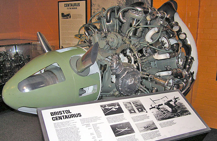 Bristol Centaurus engine at Bristol Industrial Museum, Bristol, England